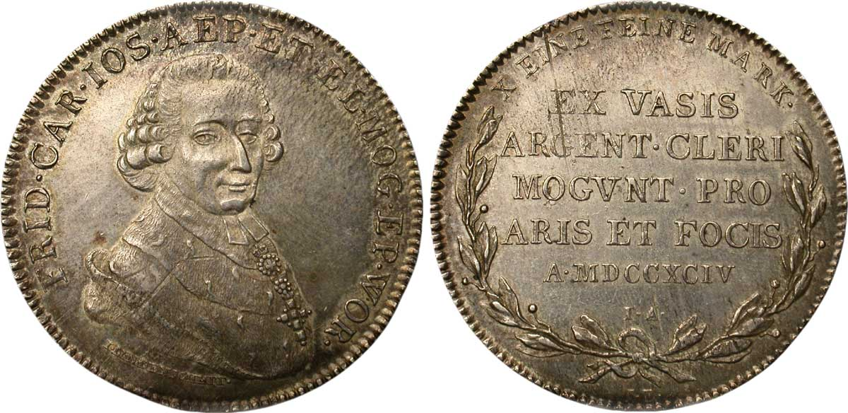 Thaler de contribution de l'archeveché de Mayence à l'effigie de Frédéric-Charles Joseph Von Erthal, 1794